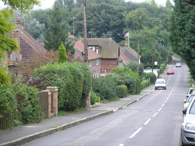 Tandridge main street. The main street that passes through the village of Tandridge.